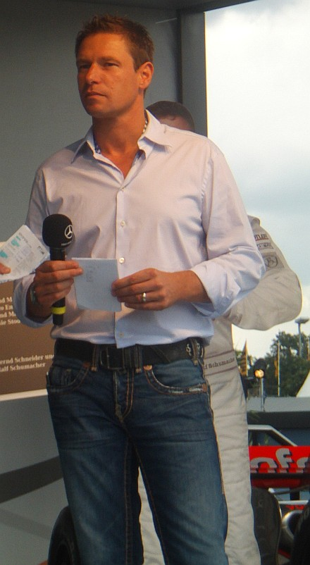 Bernd Mayländer at the 2008 Norisring race